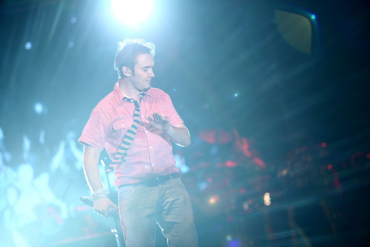 Mustafa Ceceli at Kucukcekmece, Istanbul.